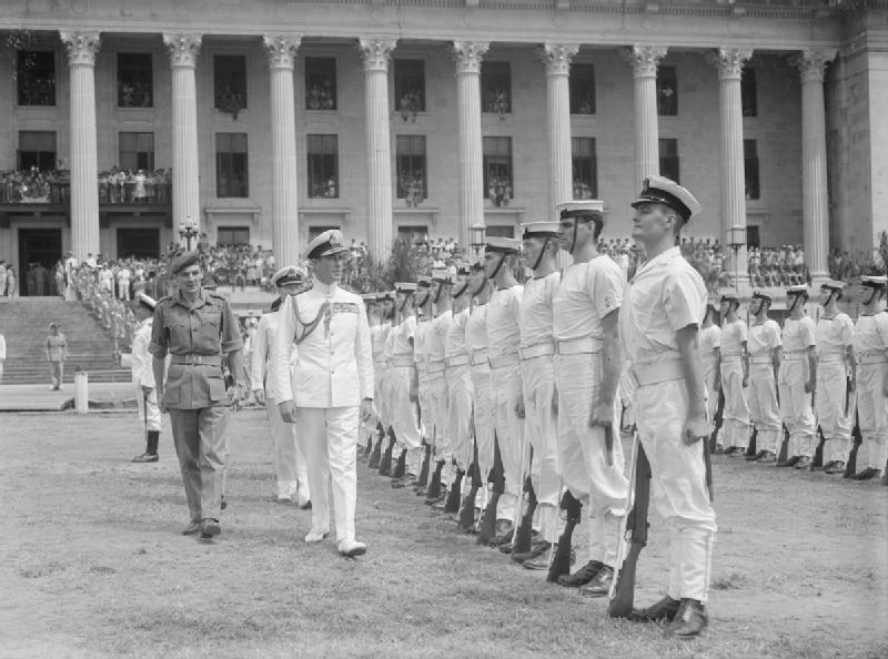 Liberation and Repatriation August - September 1945: The Supreme Allied Commander, South East Asia, Admiral Lord Louis Mountbatten inspects the naval guard of honour outside the Municipal Building, Singapore, prior to the surrender ceremony held there.